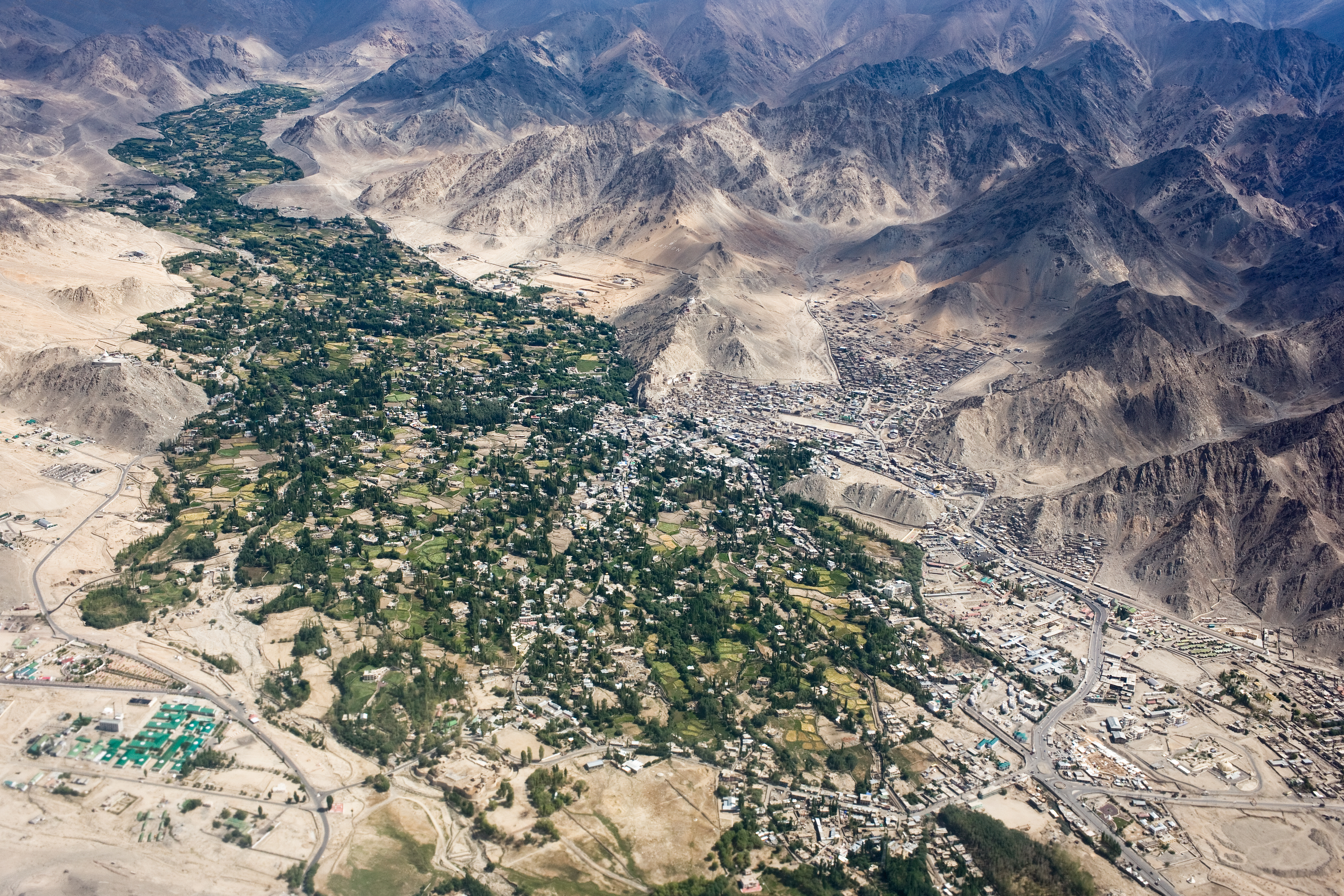 Leh and it's surroundings